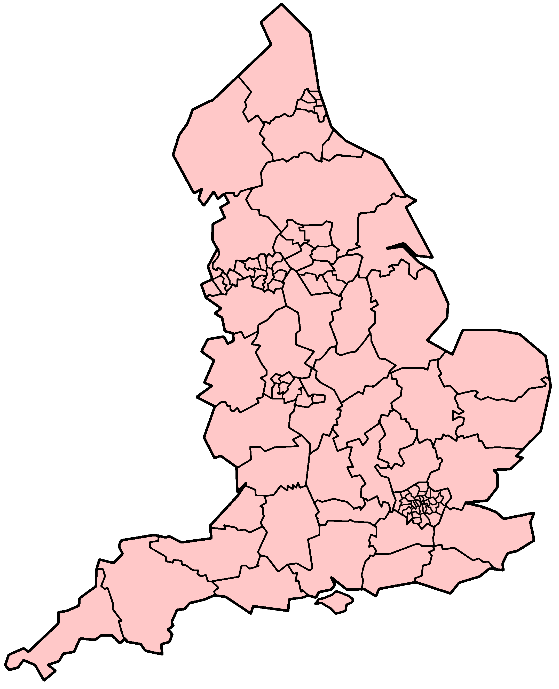 A map showing the principal local authorities in England after the Local Government Act 1985 (c. 51) came into force on 1 April 1986. The Act abolished the county councils of the metropolitan counties that had been set up in 1974 by the Local Government Act 1972, along with the Greater London Council that had been established in 1965.